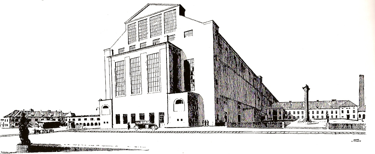 The Vita-Film Ateliers on Vienna's Rosenhügel in a drawing